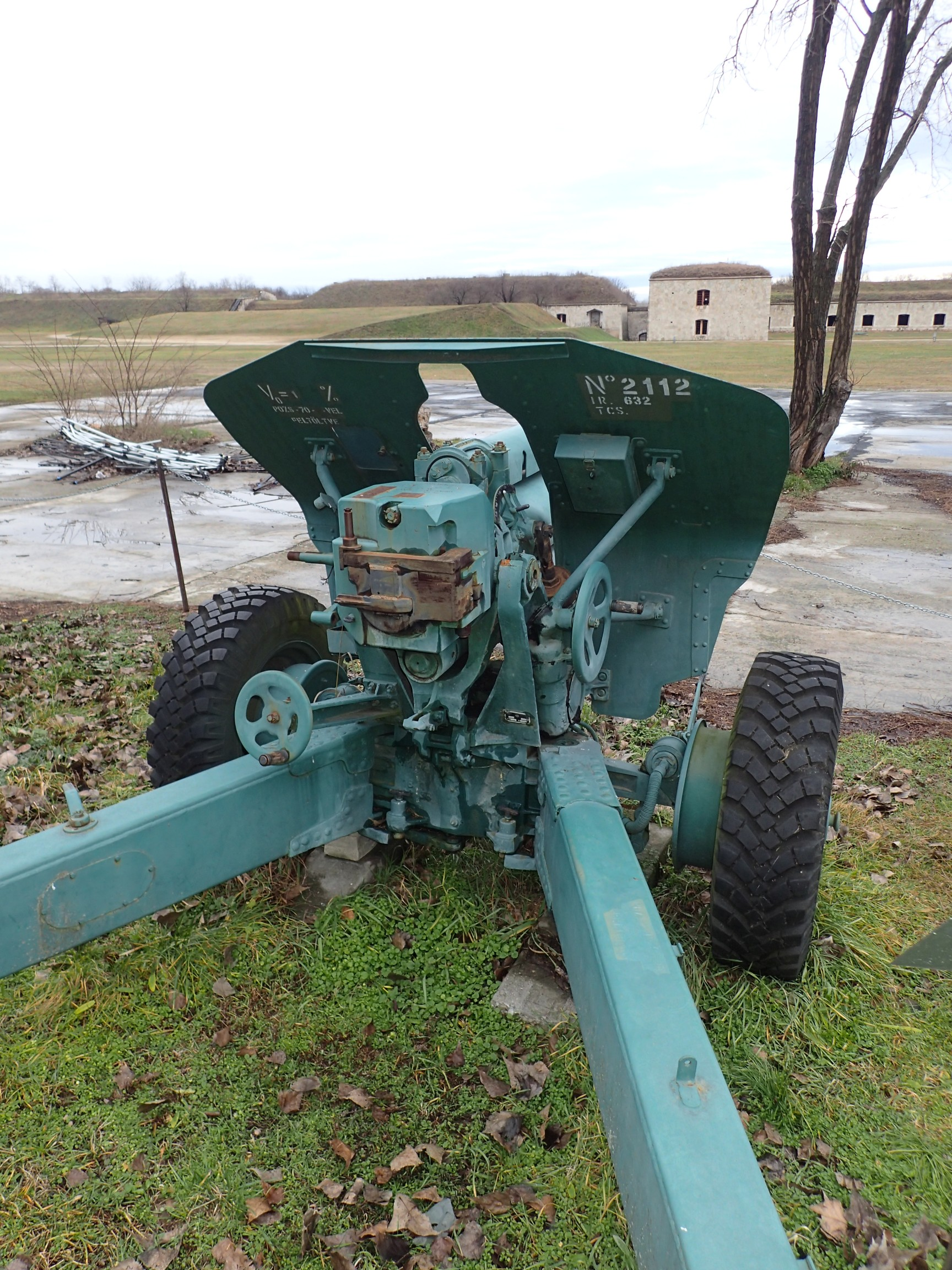 122 mm howitzer M1938 (M-30) in Fort Monostor, Komárom, Hungary